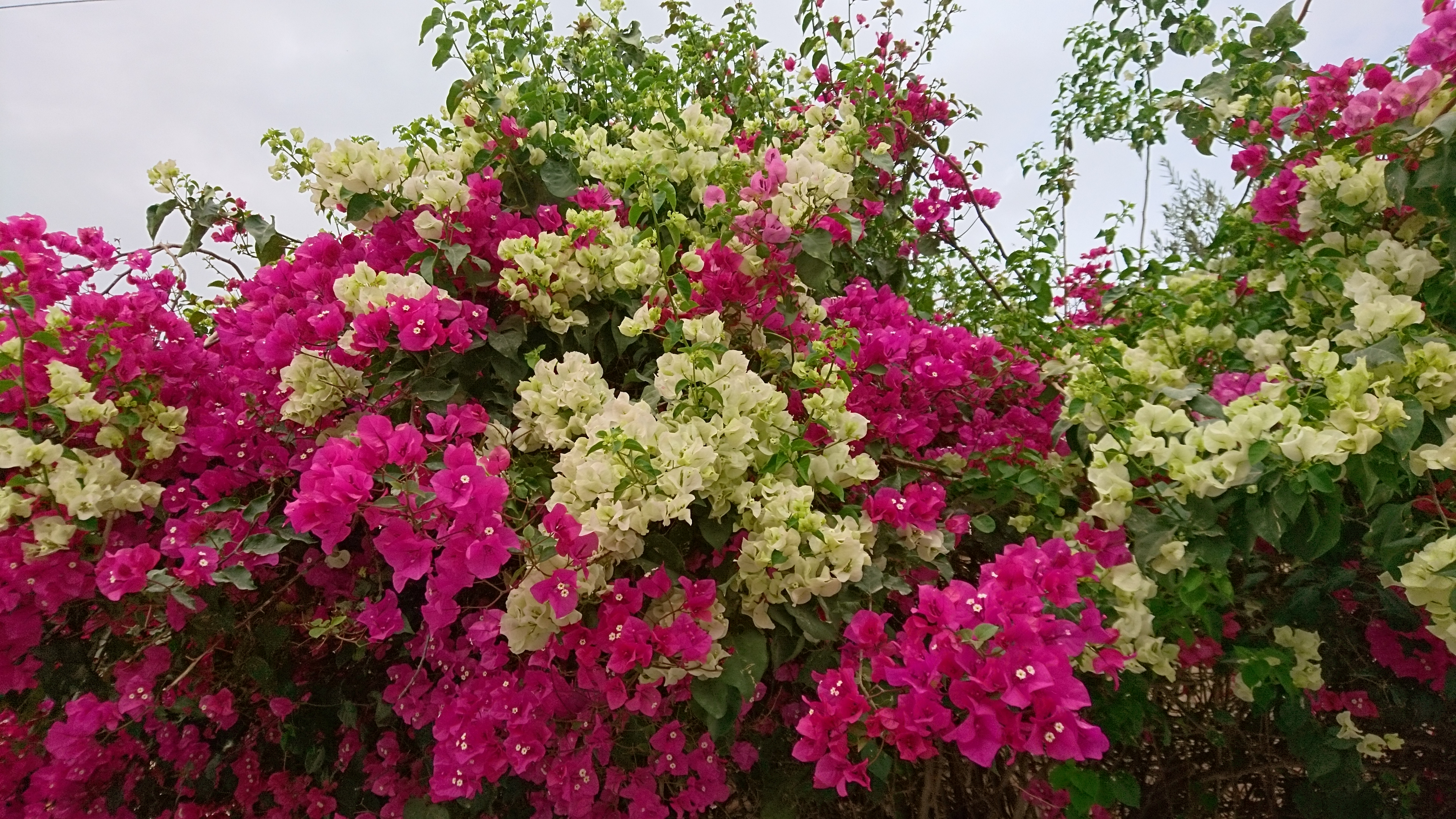 Bougainvillea in Behbahan